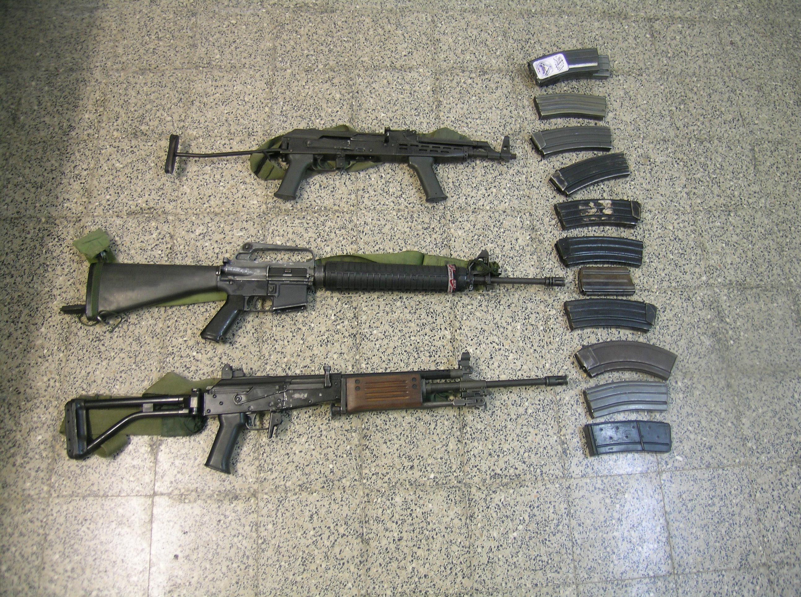 04/22/2007 Militants opened fire at a special Border Patrol unit in Jenin. The unit, which spotted the armed militants, fired upon them and killed three of the attackers. The Israeli soldiers found that the militants held an AMD-65, an M-16, an RPG explosive as well as a Galil gun with 12 cartridges. Pictured: Galil gun, M-16, AK-47 and cartridges found on the militants